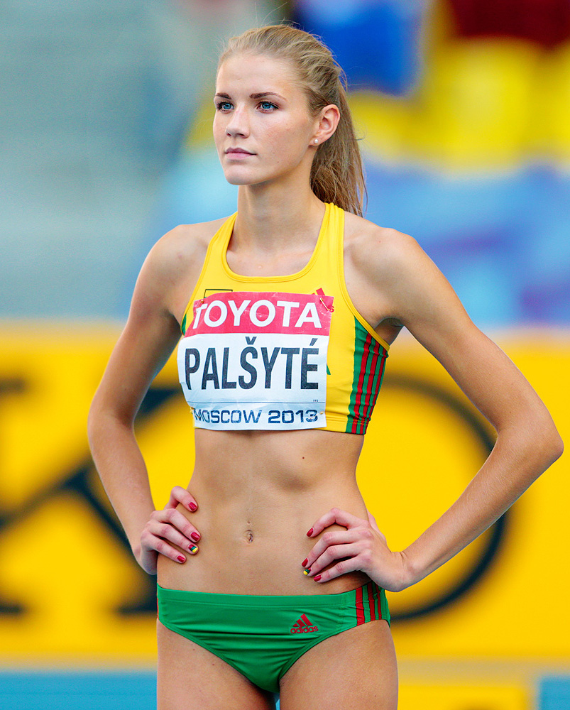 Airine Palsyte on 14th IAAF World Championships in Athletics